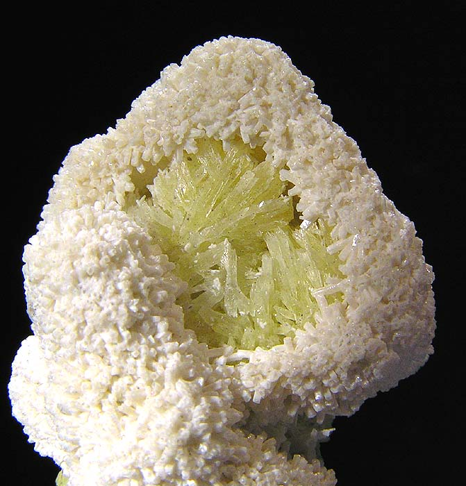 Shortite Locality: Poudrette quarry (Demix quarry; Uni-Mix quarry; Desourdy quarry), Mont Saint-Hilaire, Rouville RCM, Montérégie, Québec, Canada (Locality at ) I have no clue what happened here, and neither do any of the experts on MSH whom I asked. It LOOKS as if gonnardite has coated some other mineral species (Haineault proposes calcite as an educated guess) that has now vanished and left behind a hollow cast which has been nearly filled in by bright lemony-yellow crystals of shortite. The shortite has unusual form, in that the crystals are extended and pointy rather than barrel-shaped. Overall the piece is just plain odd, and really attractive in that oddball way. To my knowledge, it is unique in its completeness. I saw a number of other fragments that were probably from similar growths but this was the only complete crystal Gilles had for sale at the Rochester show and he felt it was the best for form, as well. 3.5 x 2.1 x 2.0 cm